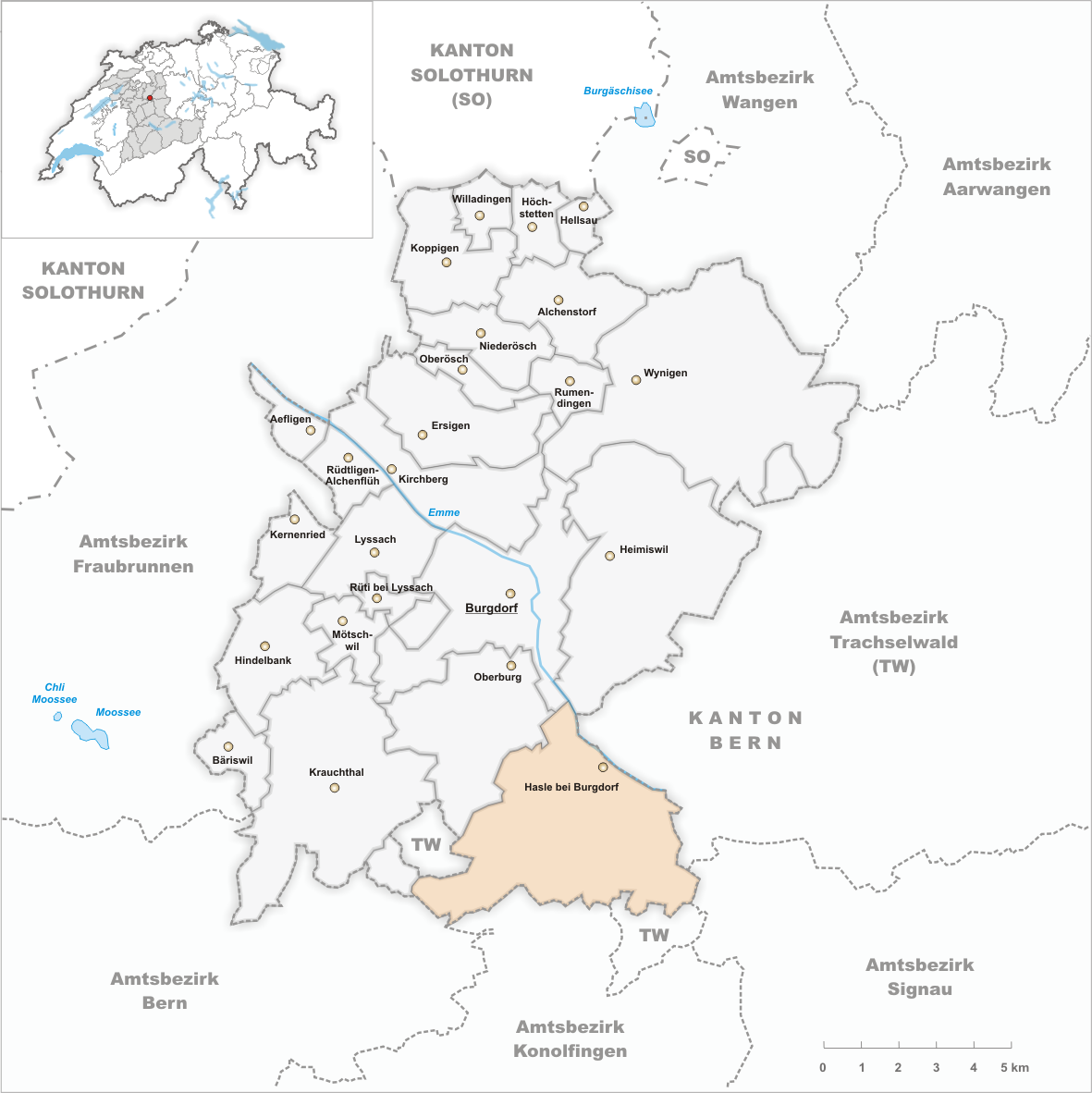 Municipality Hasle bei Burgdorf